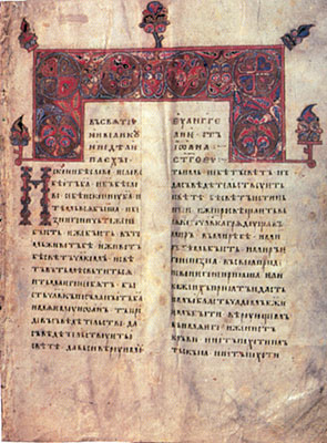 Mstislavovo Gospel